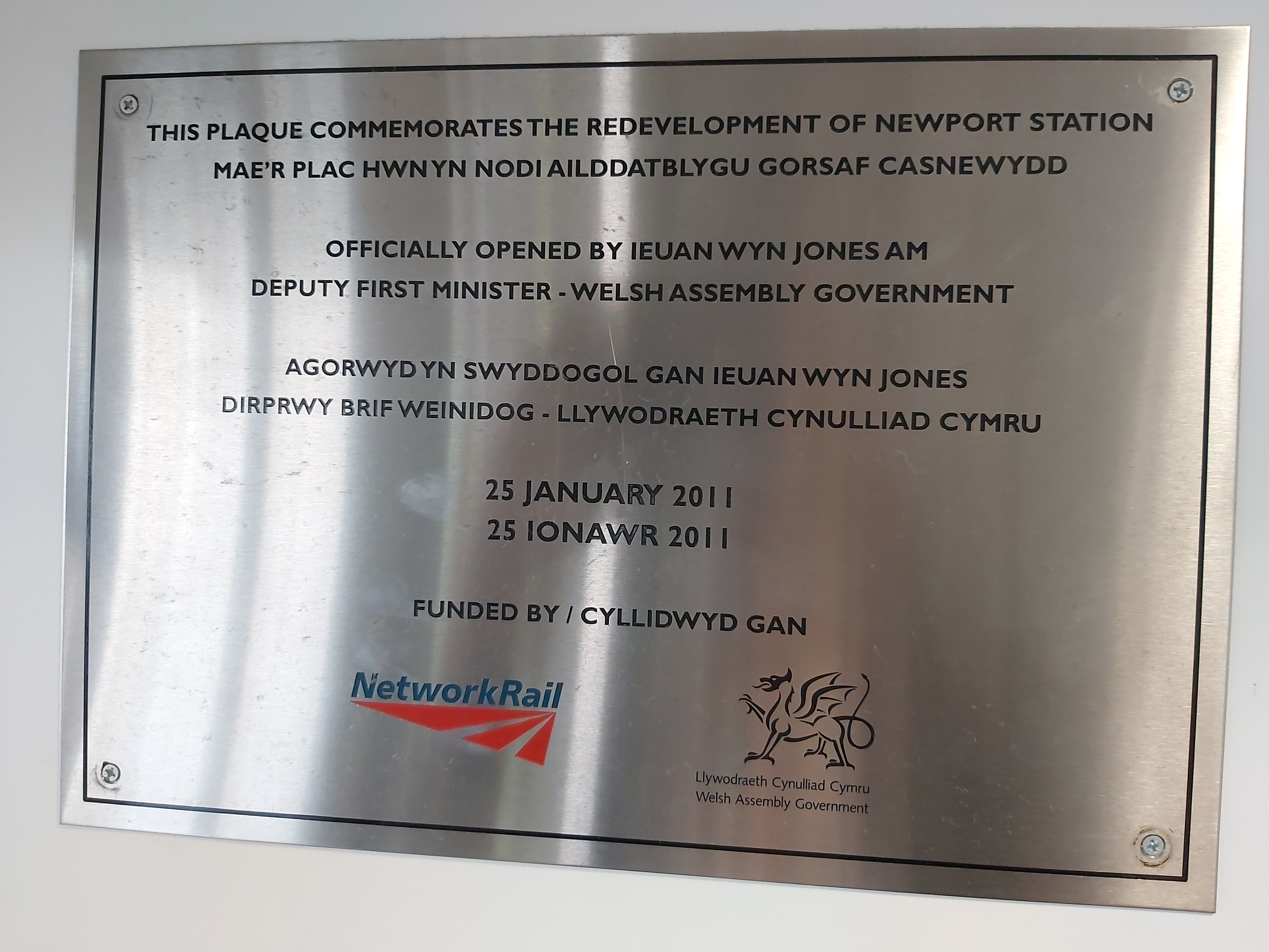 This is displayed inside the ticket office on the side wall.